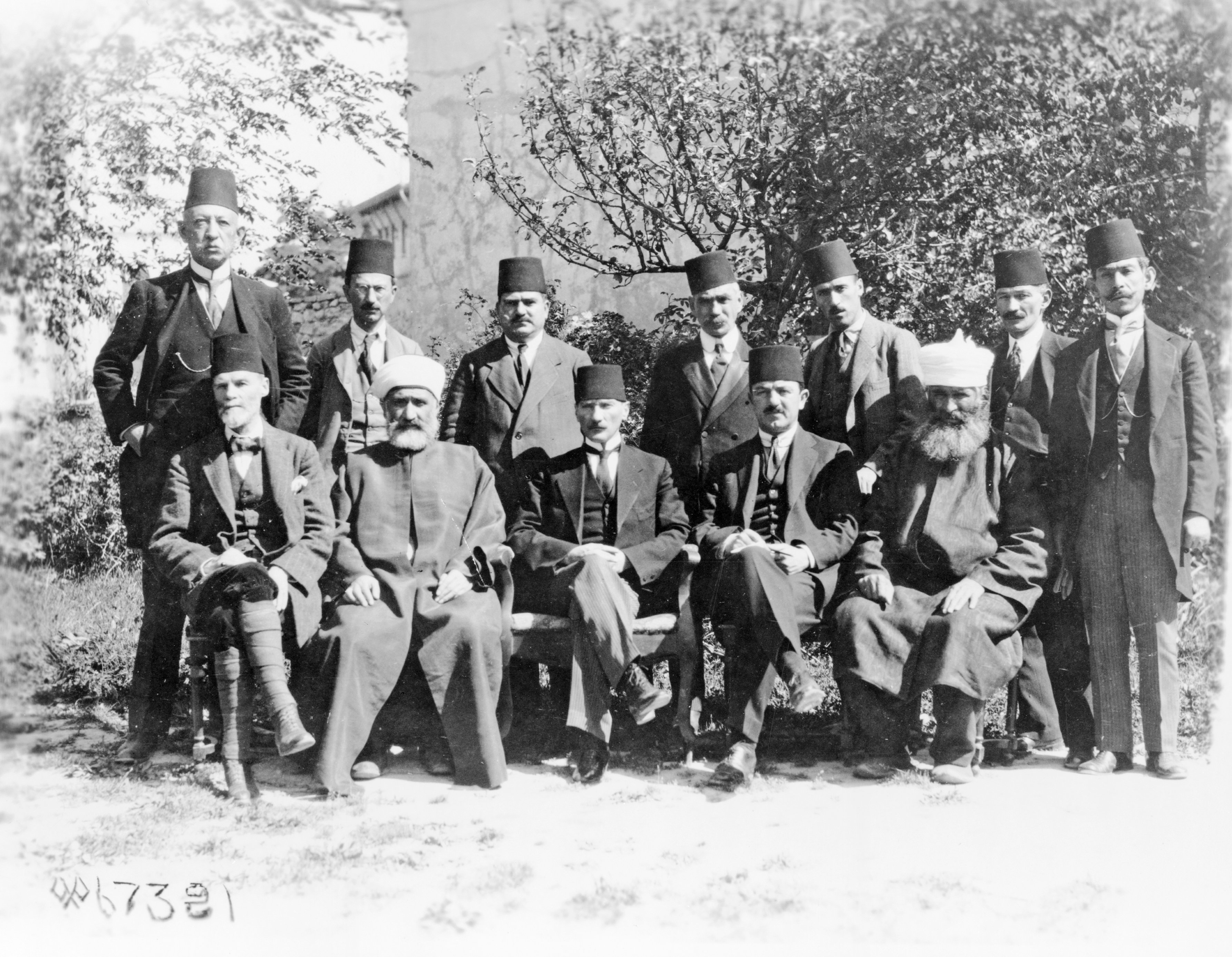 Mustapha Kemal Pasha & members of his Nationalist Committee, Sivas, 1919